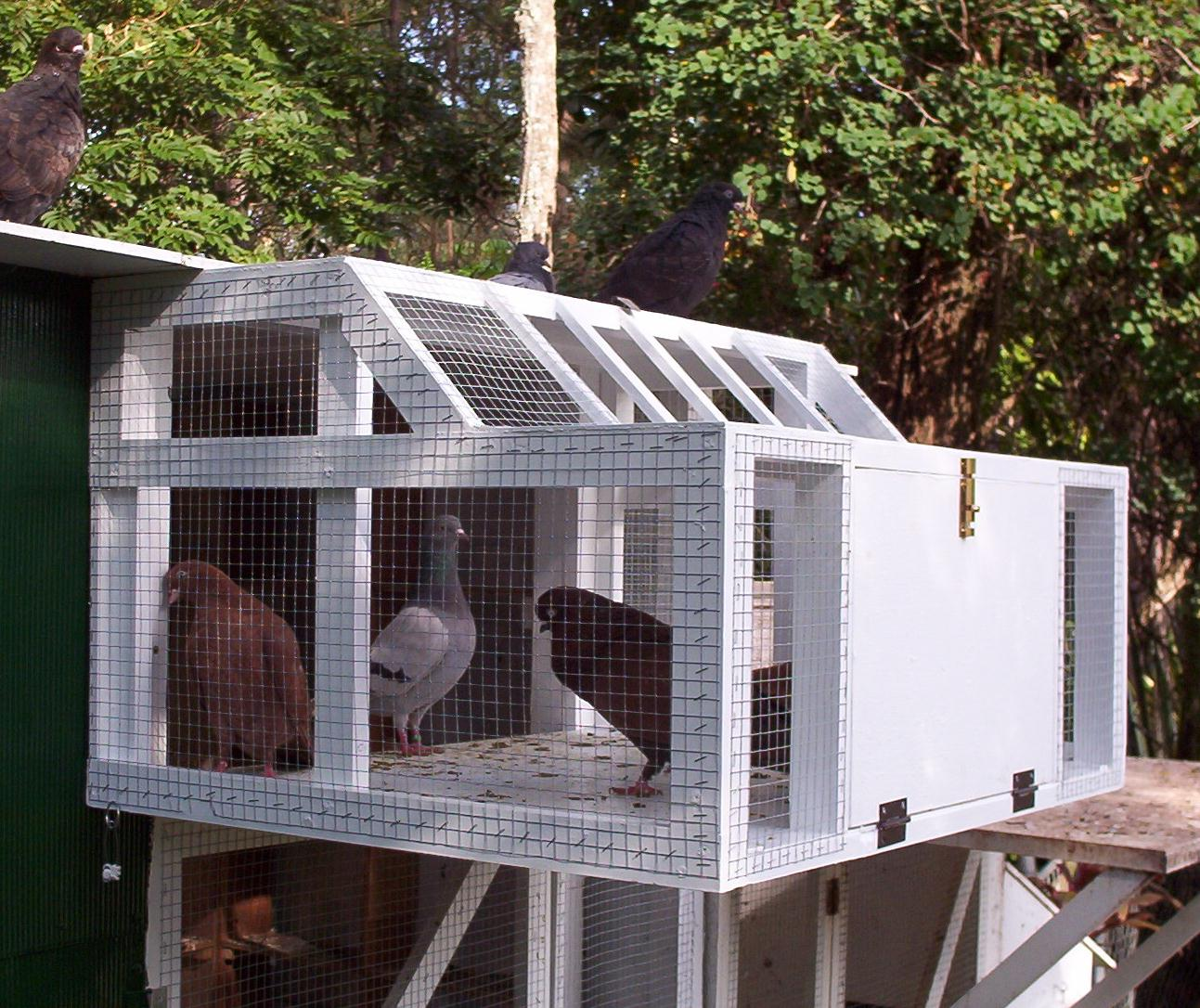 Home made sputnik trap which allows pigeons entry to loft by dropping through narrow openings at top. The birds are released via trapdoor at front.